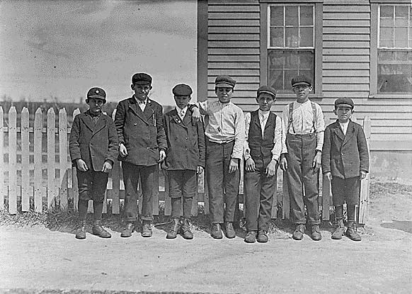 Original description: These are some of the sweepers and mule room boys working in Valley Queen Mill. Several of the smallest ones there said they had been working there 3 years and over. Speak no English. River Point, R.I., 04/18/1909. Photographed by Lewis Hine.